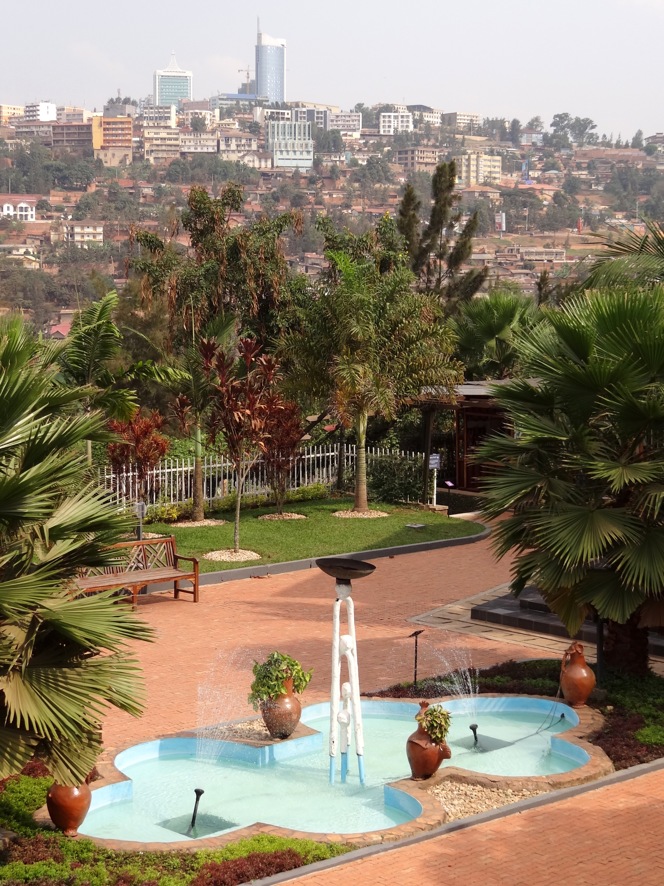 Grounds of Kigali Genocide Memorial with City in the Distance - Kigali - Rwanda